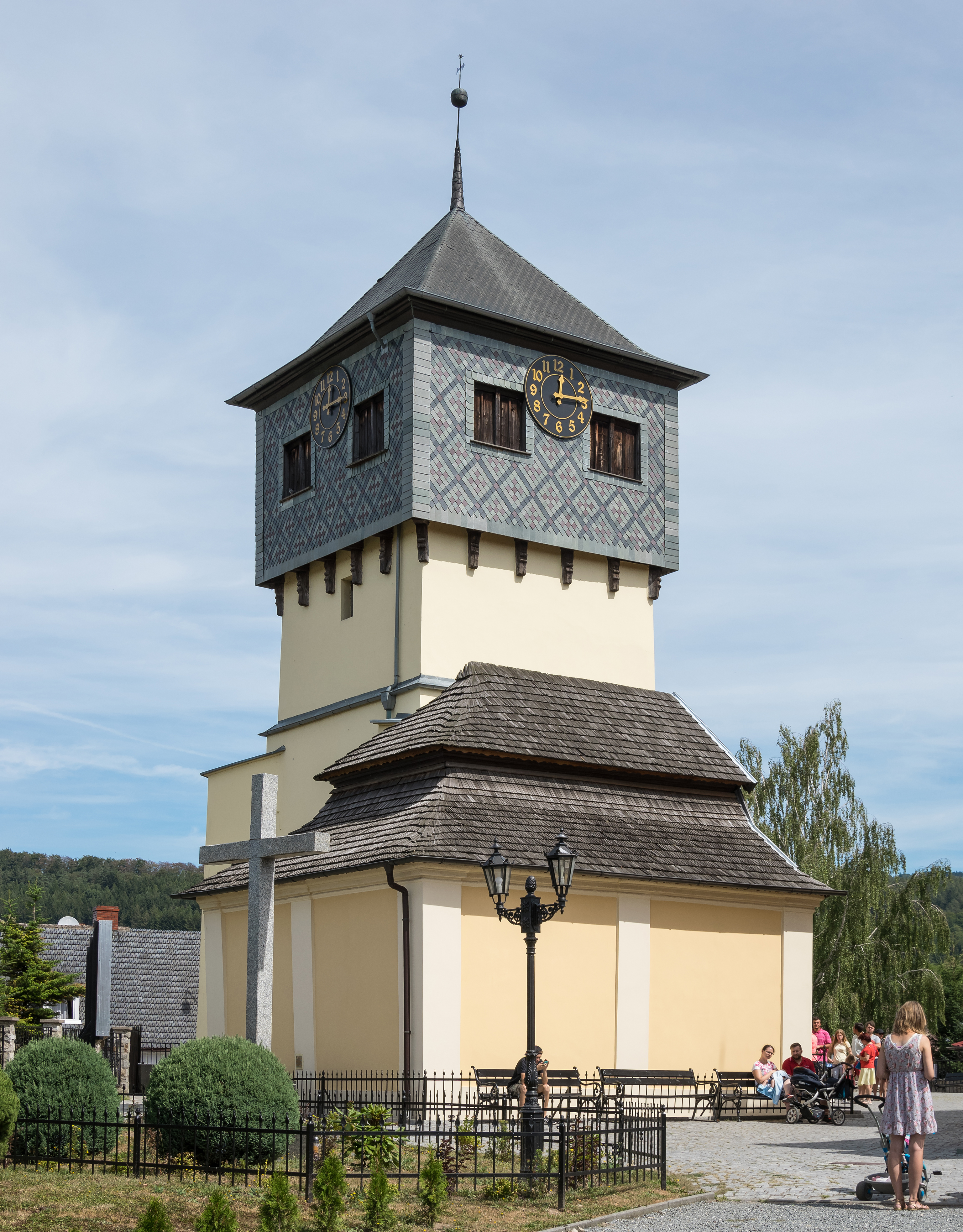 Bell tower of Saint Bartholomew church in Czermna Wikidata has entry Q30047805 with data related to this item.